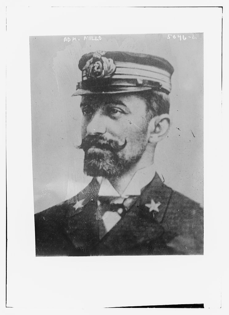 Enrico Millo circa 1915